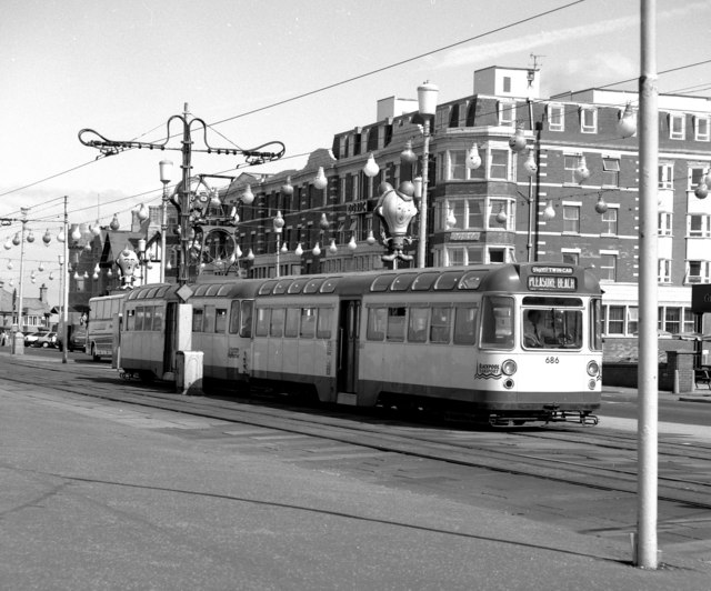 Trams at Cabin, Blackpool Twinset No 676/686 is southbound, being driven from the trailer car.